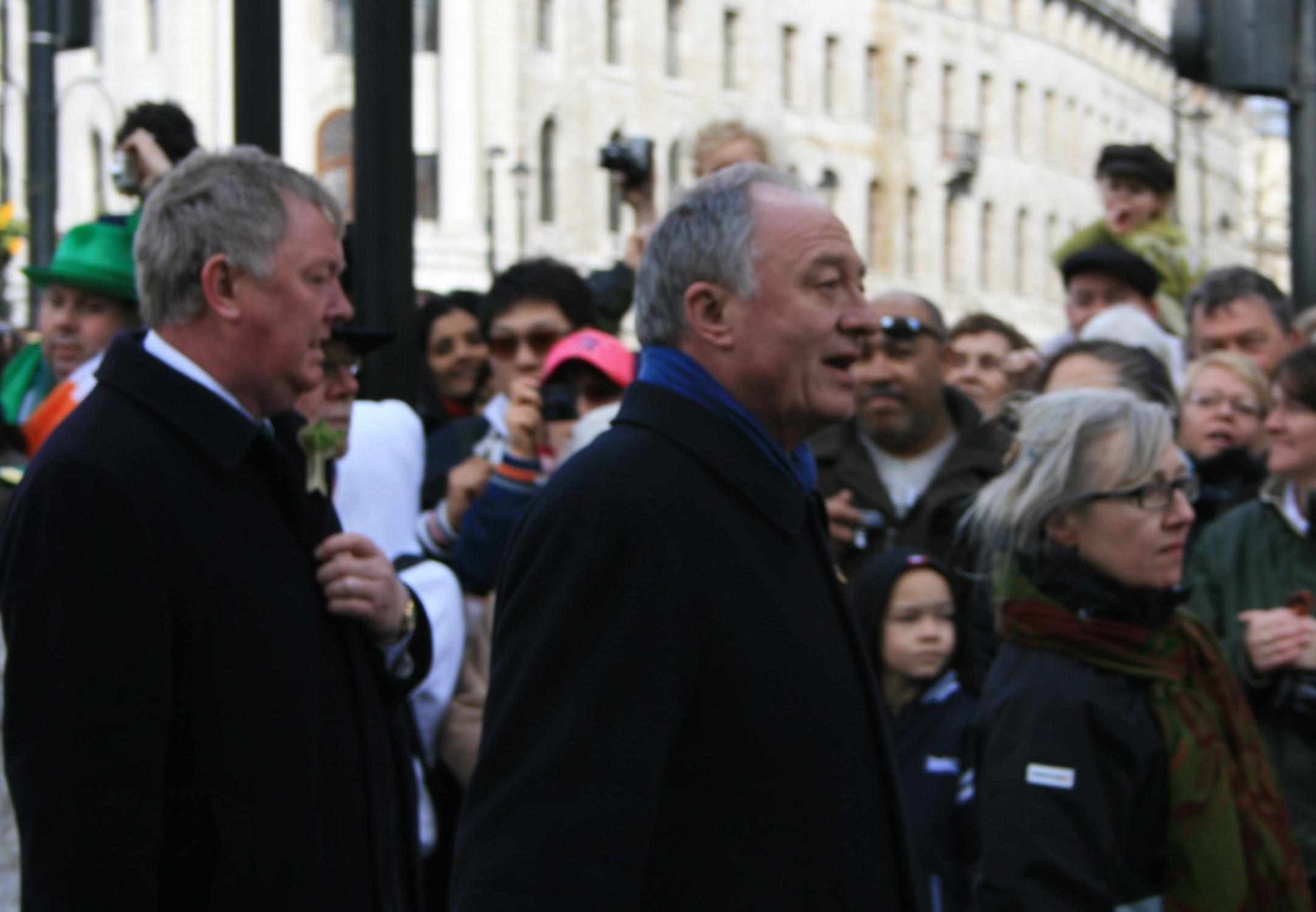 Ken Livingstone, Mayor of London, taking part in the St Patrick's Day parade in London 2007